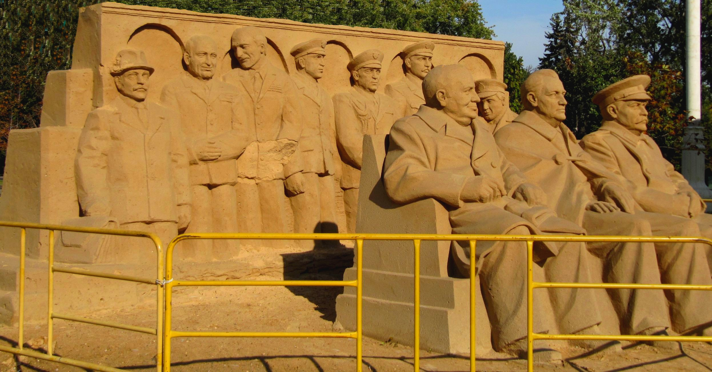 Sand sculpture-Big Three:Churchill+Roosevelt+Stalin at Yalta in 1945. Moscow, All-Russia Exhibition Centre -2010